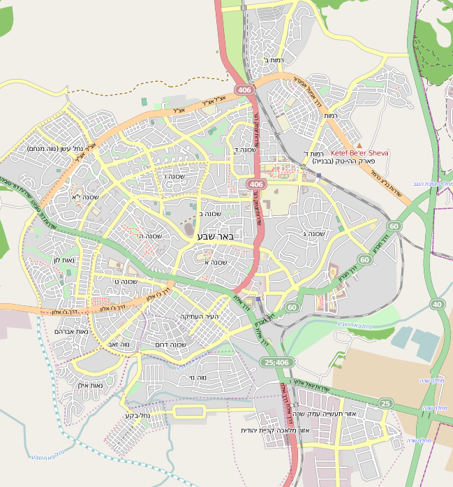 B406 Israel, Neighborhoods in Beersheba